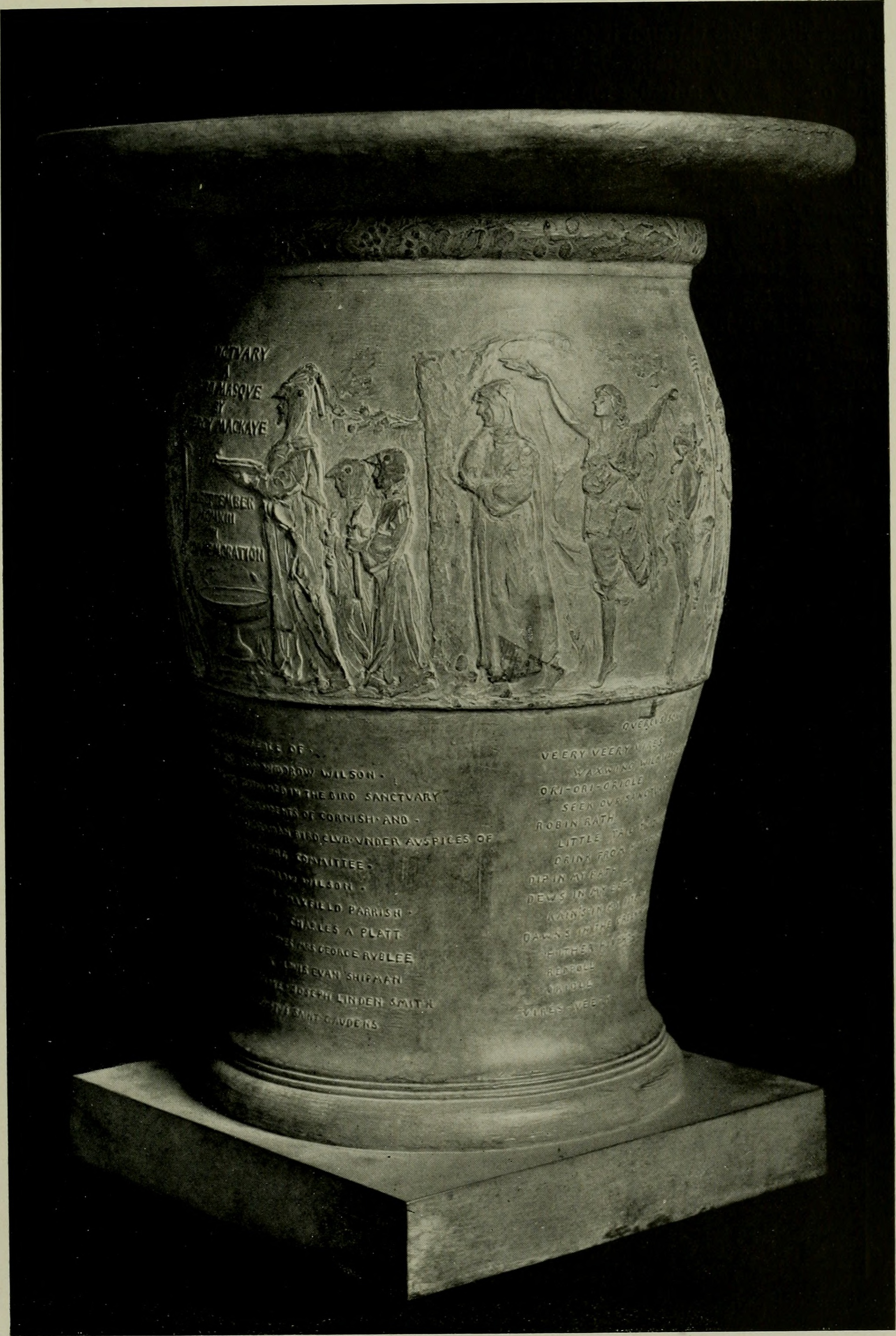 Bronze bird fountain by Annetta Johnson Saint-Gaudens Title: The American Museum journal Year: c1900-(1918) (c190s) Authors: American Museum of Natural History Subjects: Natural history Publisher: New York : American Museum of Natural History Text Appearing Before Image: ' Text Appearing After Image: BRONZE BIRD FOUNTAIN Executed by Mrs. Louis Saint Gaudens for the Bird Sanctuary at Meriden 183